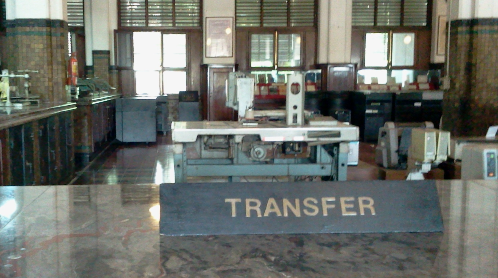 Transfer money sign at the Bank Mandiri Museum